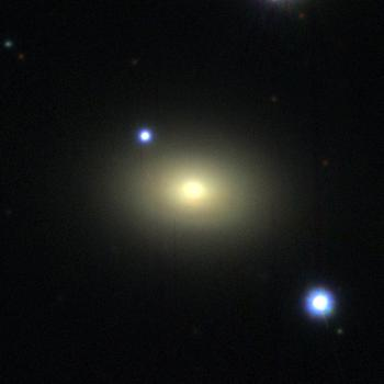 PanSTARRS image of NGC 712.